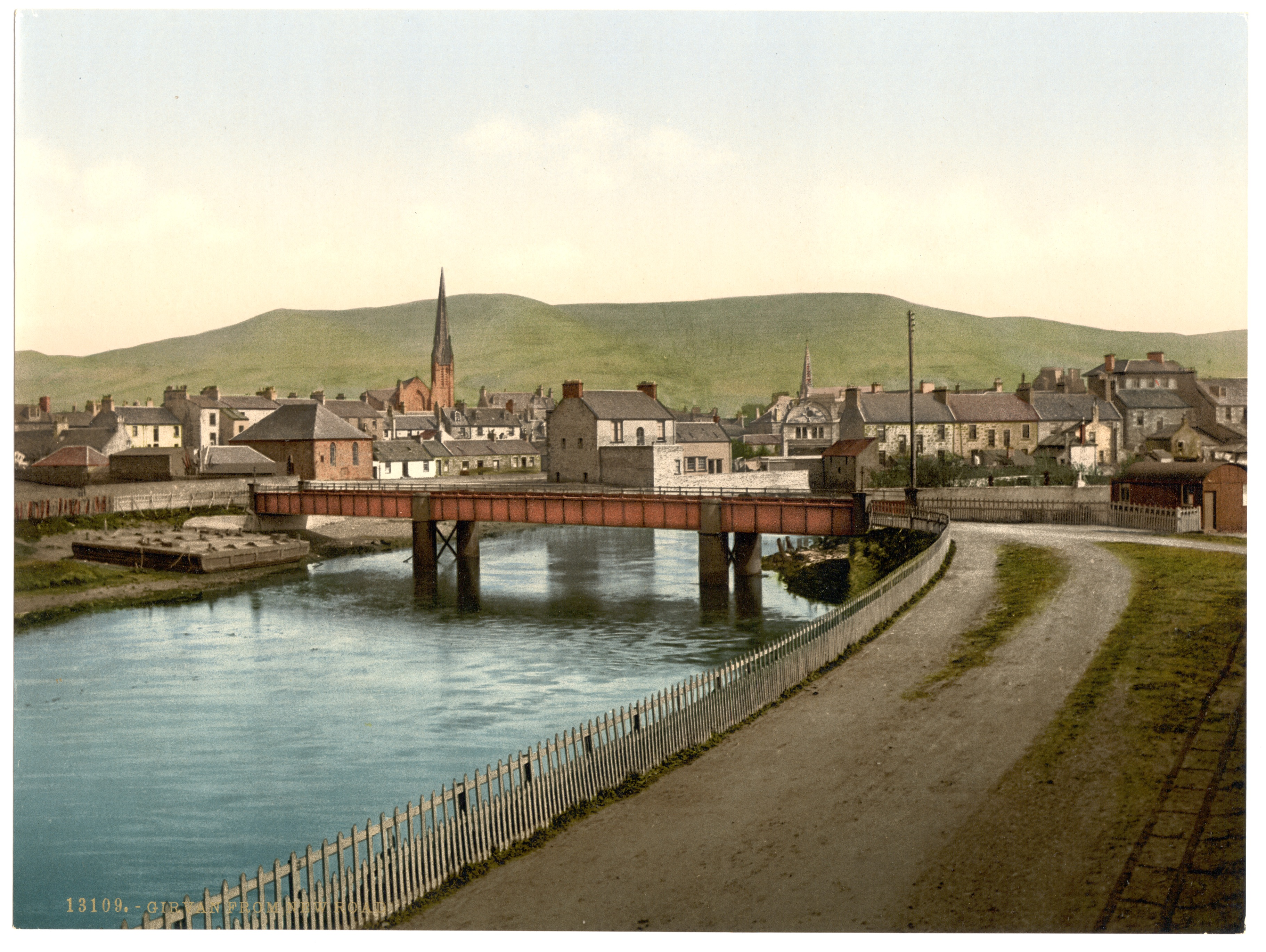 Title from the Detroit Publishing Co., catalogue J-foreign section. Detroit, Mich. : Detroit Photographic Company, 1905.; More information about the Photochrom Print Collection is available at Print no. "13109".; Forms part of: Views of landscape and architecture in Scotland in the Photochrom print collection.